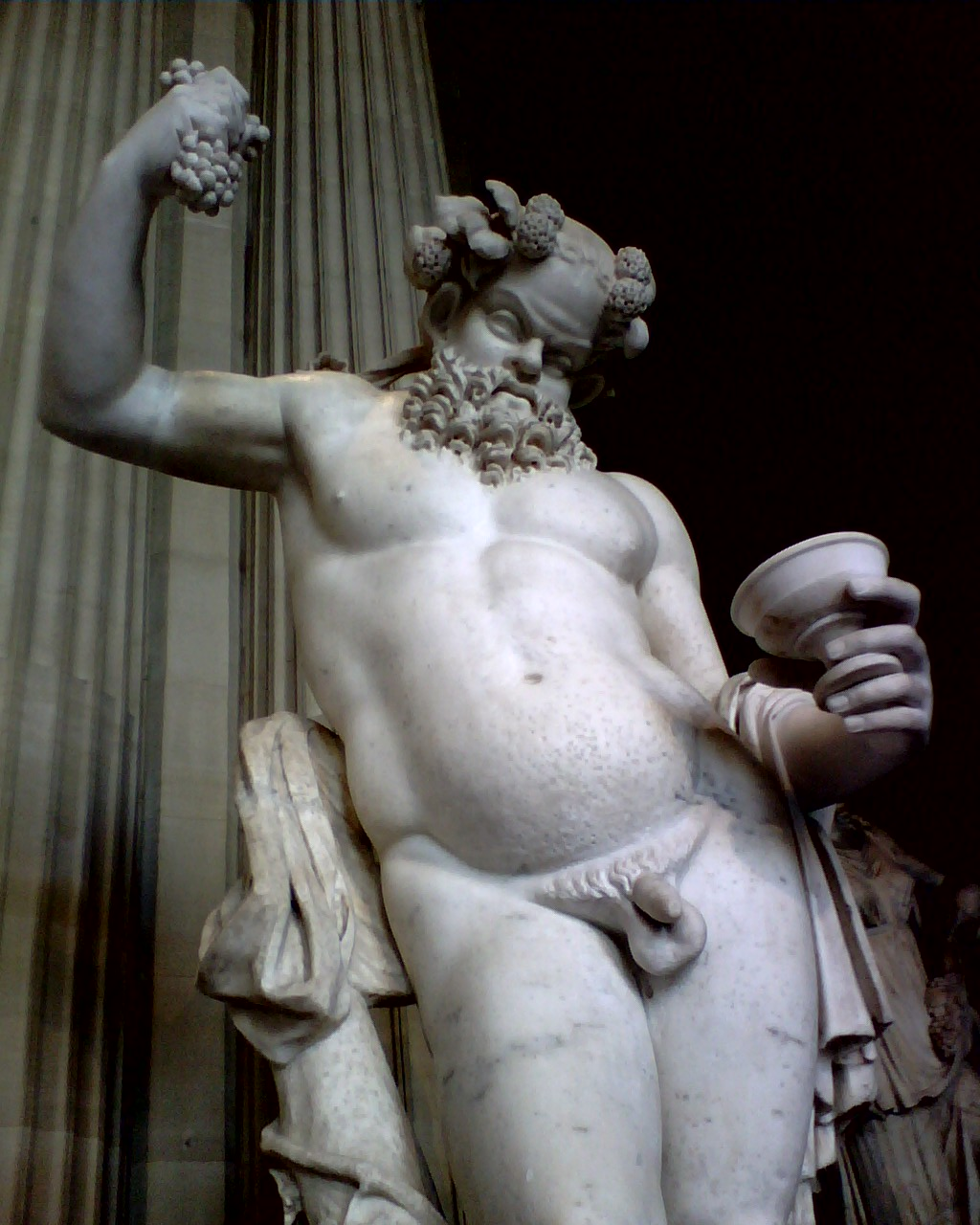 Drunken Silenus. Parian marble, Roman artwork of the 2nd century CE. May be inspired by the Pouring Satyr by Praxiteles.